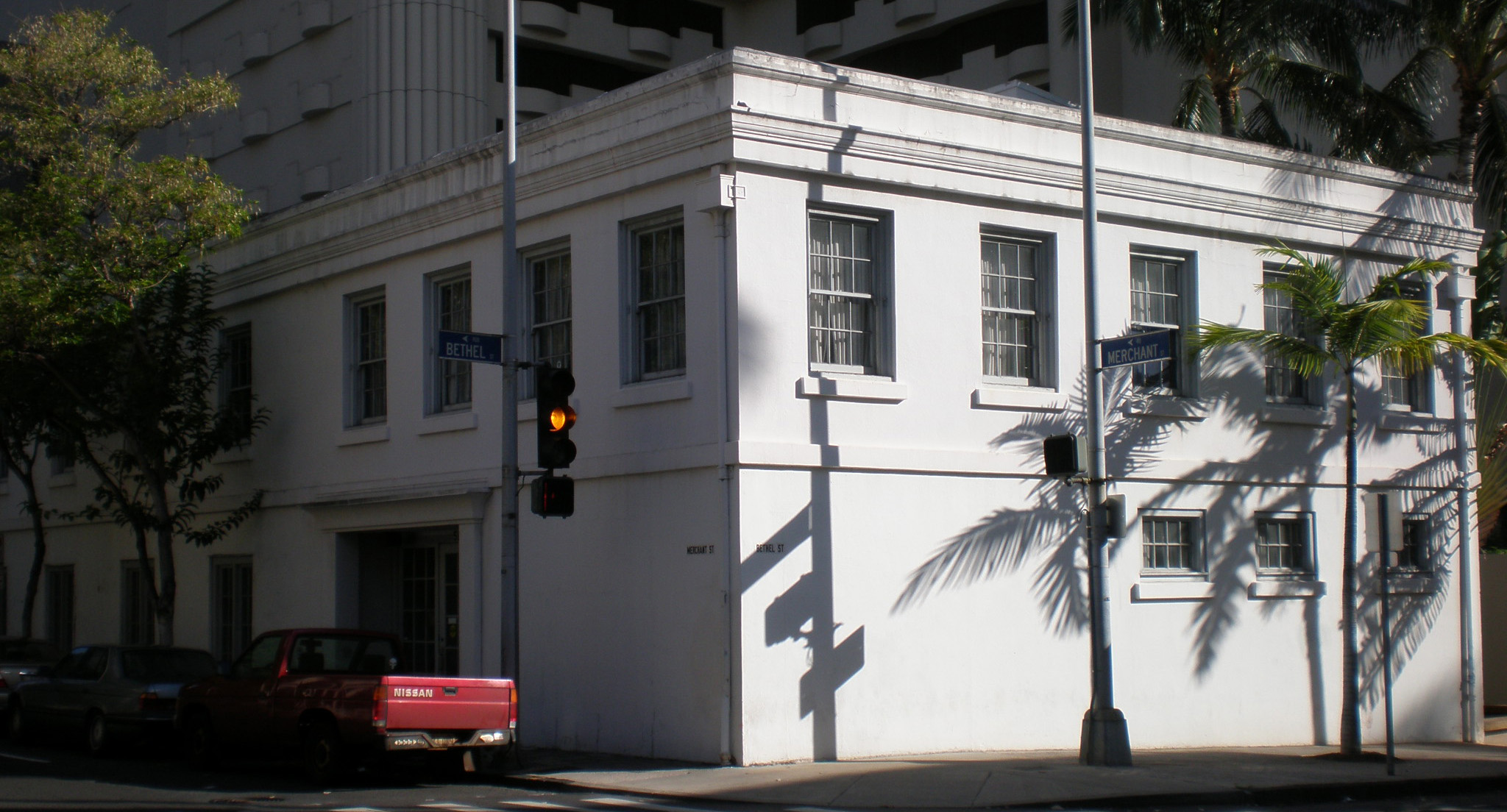 Melchers Building, 51 Merchant Street, Honolulu, Hawaii, in Merchant Street Historic District on National Register of Historic Places